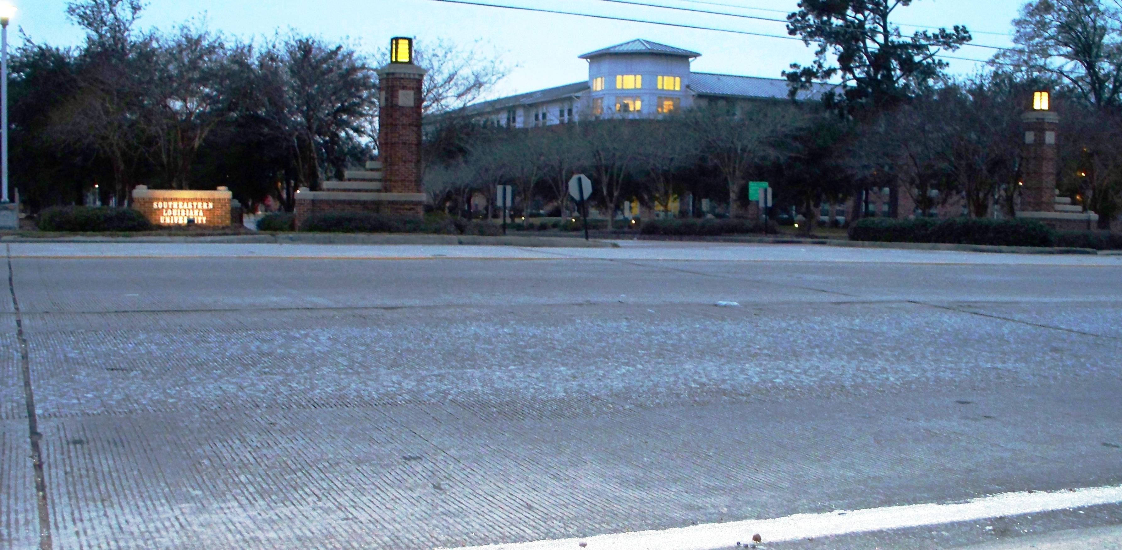 Southeastern Louisiana's main entrance is connected to Interstate 55 via LA 3234 (University Avenue), a multilane thoroughfare. Background: Saint Tammany Hall.